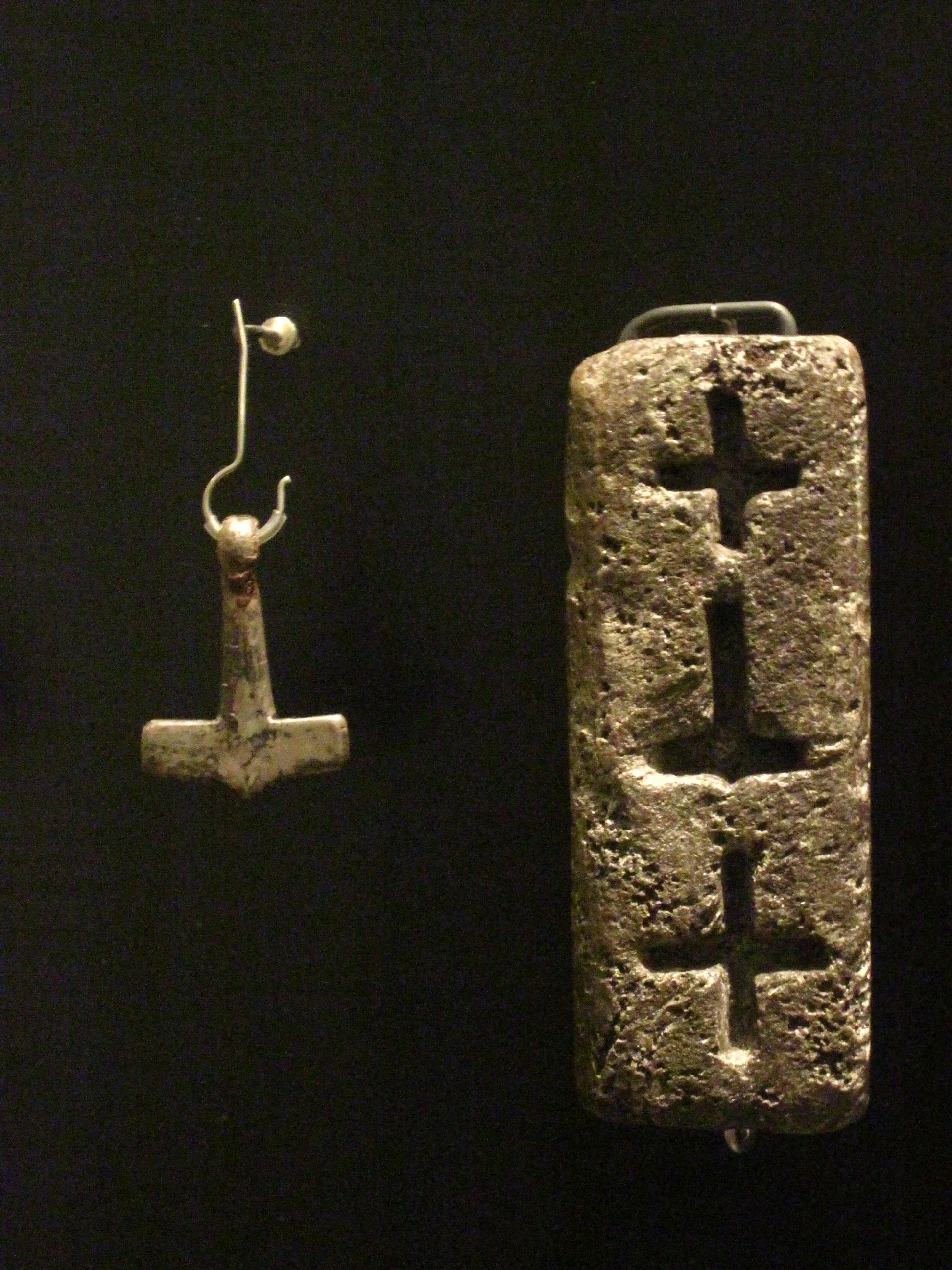 Mould from Himmerland. Used for making both christian cross symbols and pagan hammer symbols. Viking Age, Denmark. On display at Nationalmuseet, Copenhagen.